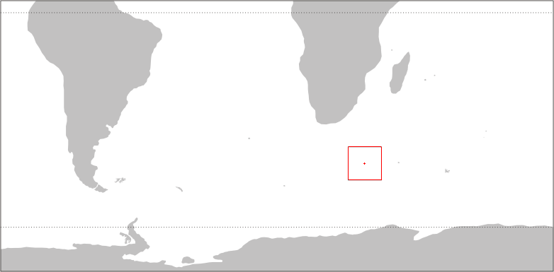 Position of the Prince Edward Islands in the Indian Ocean